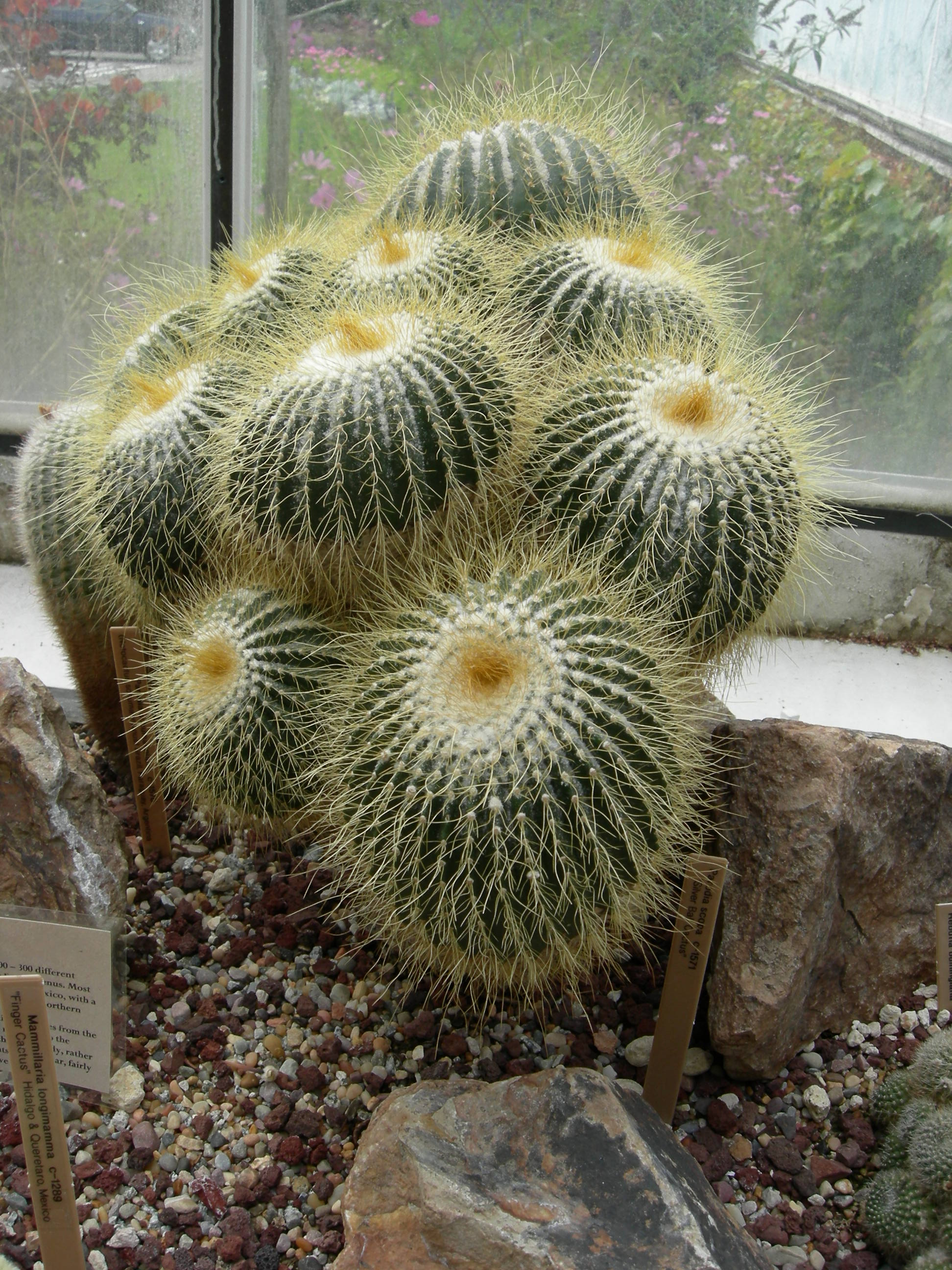 Parodia schumanniana (a cactus) in Volunteer Park Conservatory, Volunteer Park, Capitol Hill, Seattle, Washington, USA.